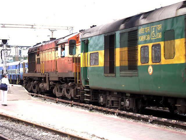 Puri=Yeswantpur Garibrath at Vijayawada Station